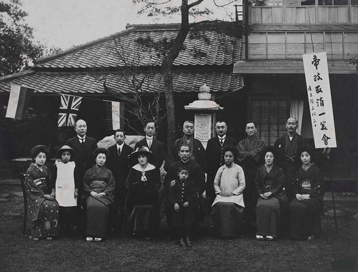 Sun Yat-sen, Soong Ching-ling, Liao Zhongkai, He Xiangning, Liao Chengzhi, Tai Chi-tao, Hu Hanmin and others were celebrating Yuan Shikai's abdication in Tokyo.